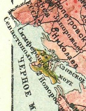 Ethnic map of the Crimean peninsula and the adjacent territories.Green colour — Crimean TatarsPink — RussiansRed hatching — Ukranians.